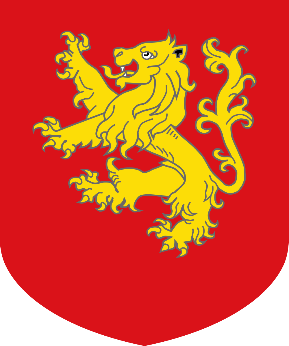 Antippa shield